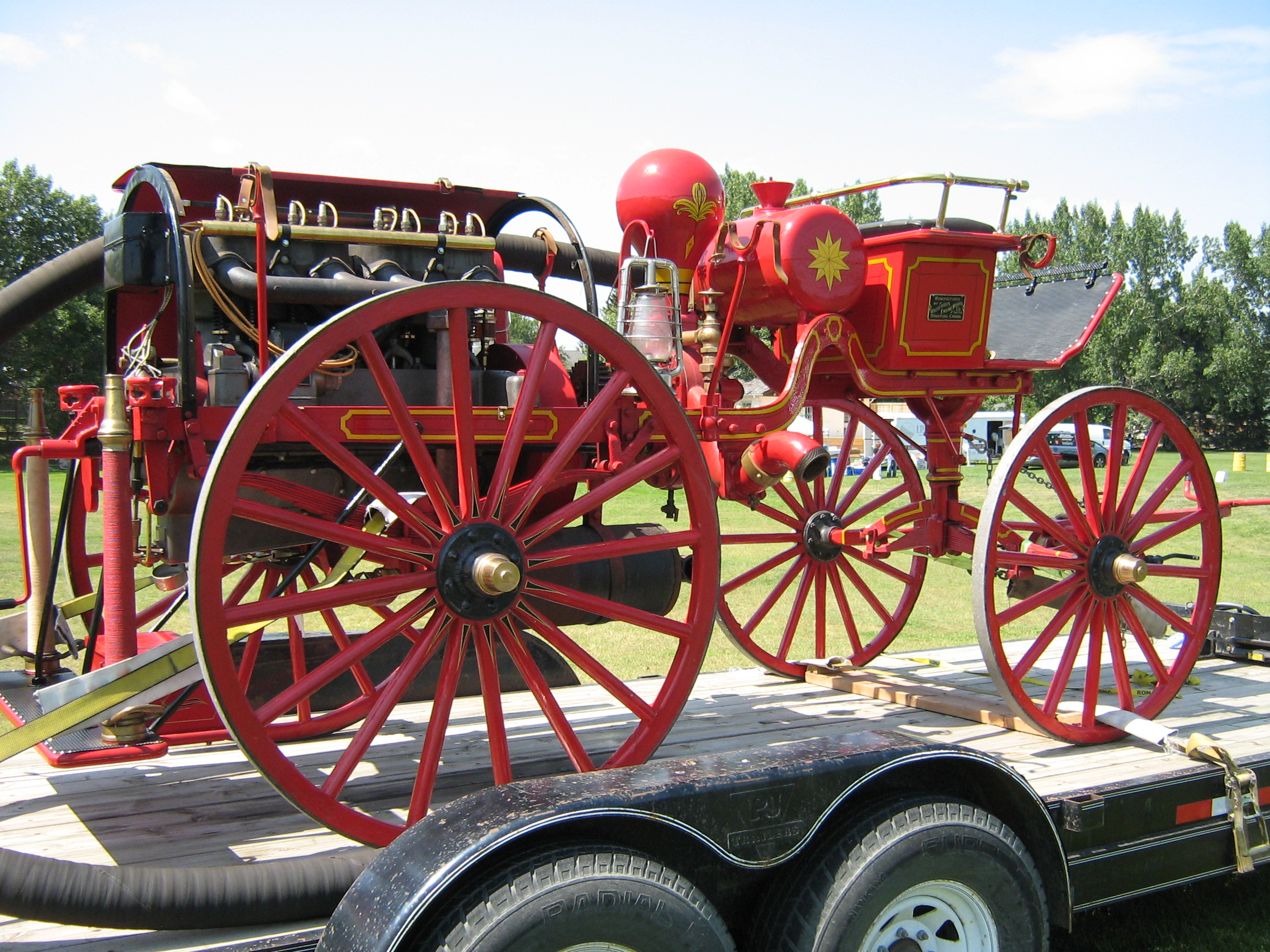 Waterous